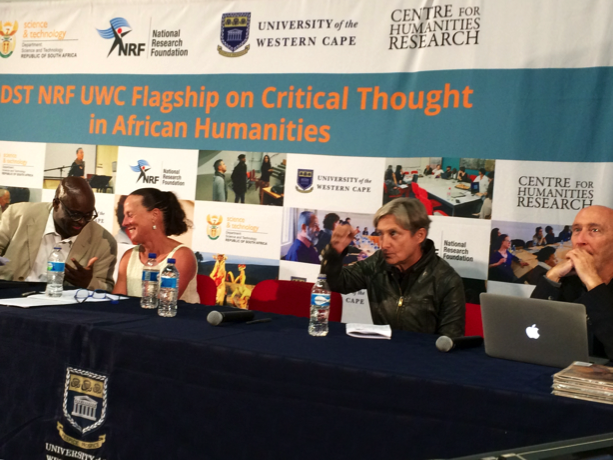 Achille Mbembe, Wendy Brown, Judith Butler, and David Theo-Goldberg in 2016